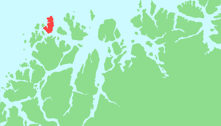 Locator map of Nordkvaløya, Troms, Norway